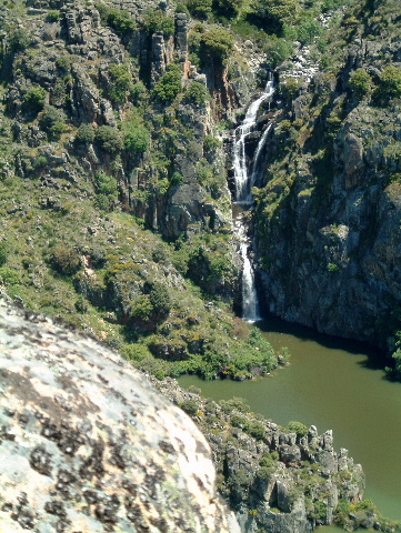 River Douro